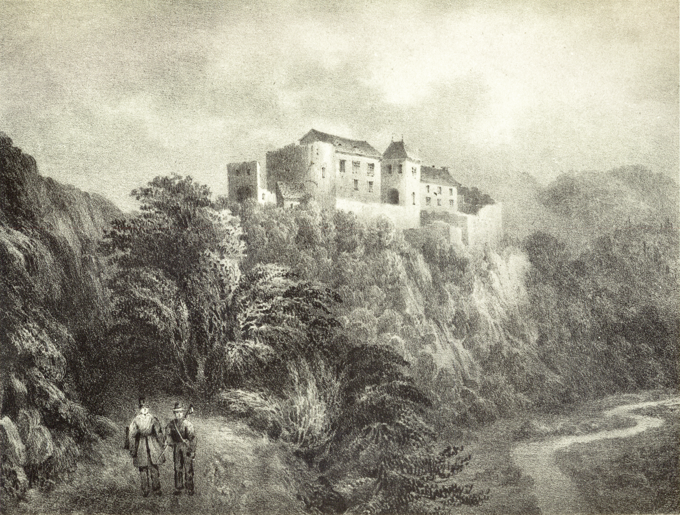 Vue of the castle of Schuttbourg. Drawing.